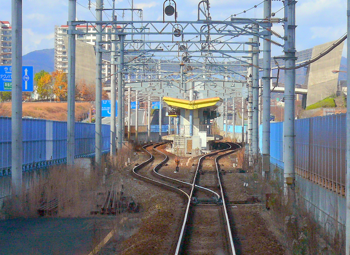 Minami Woody Town Station Premises（Hyogo prefecture , Japan）.